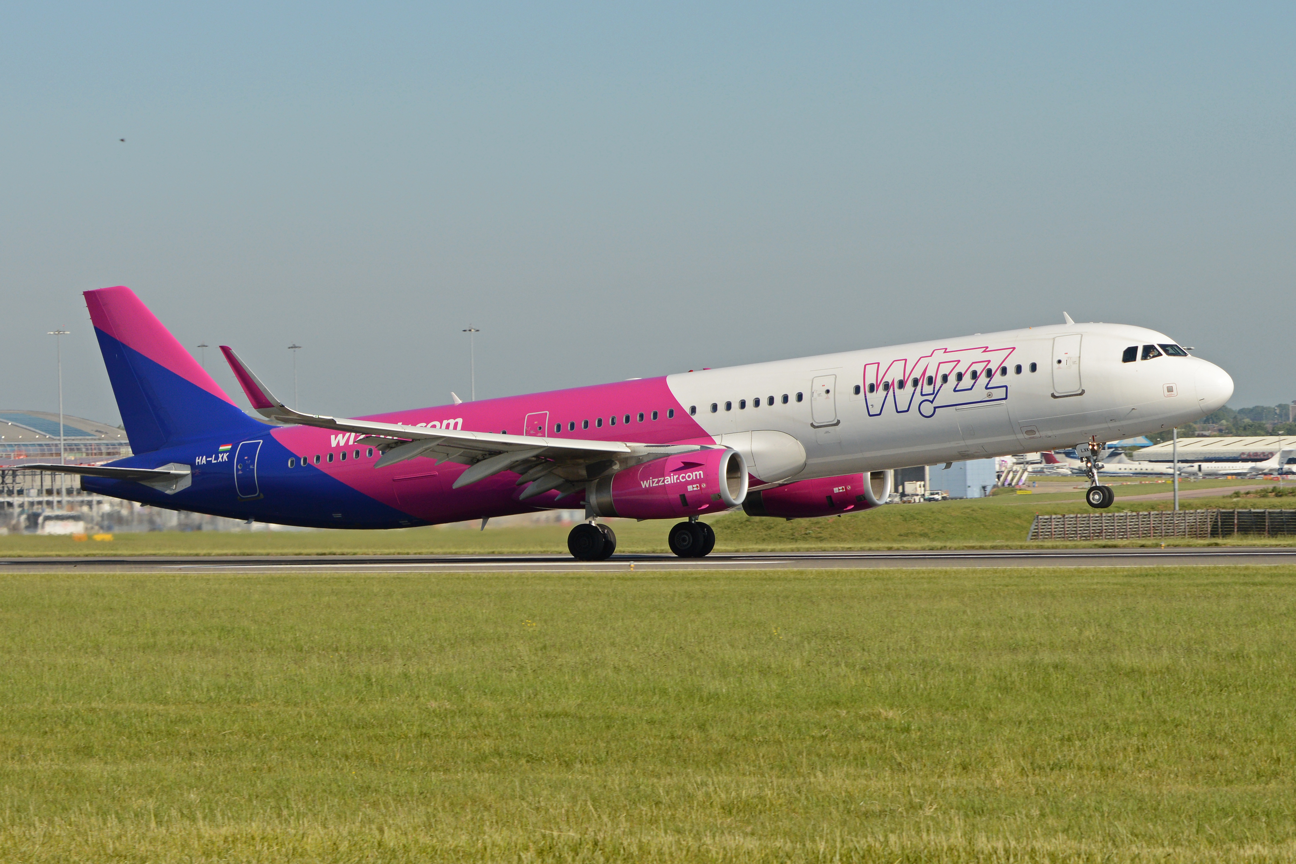 c/n 7440. Built 2016. Seen departing on flight W61302 / WZZ9FJ to Warsaw. London Luton Airport, UK. 26th May 2017